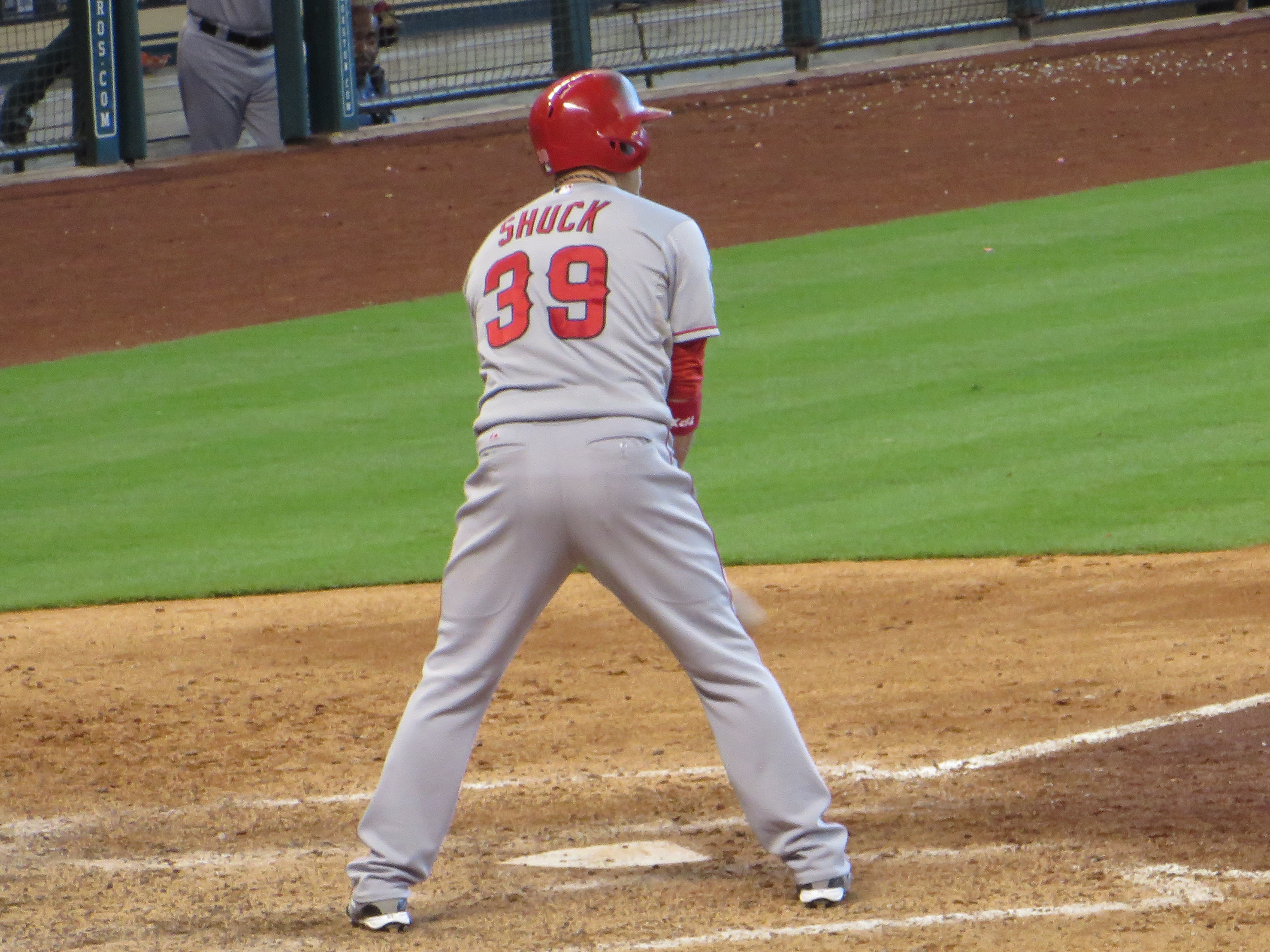 Los Angeles Angels of Anaheim outfielder J. B. Shuck, Minute Maid Park, June 29, 2013.